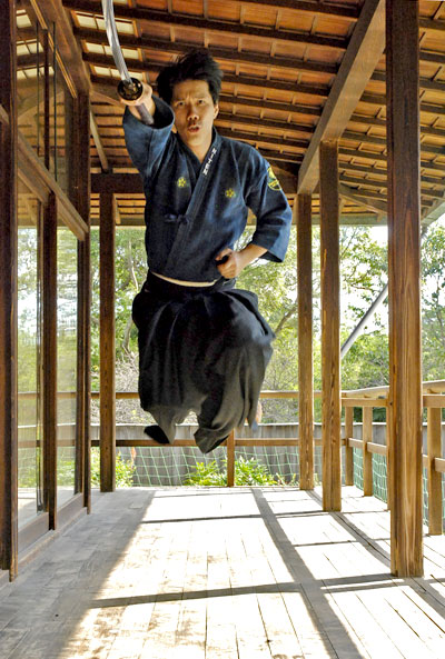 Sensei Jorge Kishikawa demonstrating kata of Iaijutsu at the commemoration of the day of the samurai -april 24, 2007-, in São Paulo, Brazil